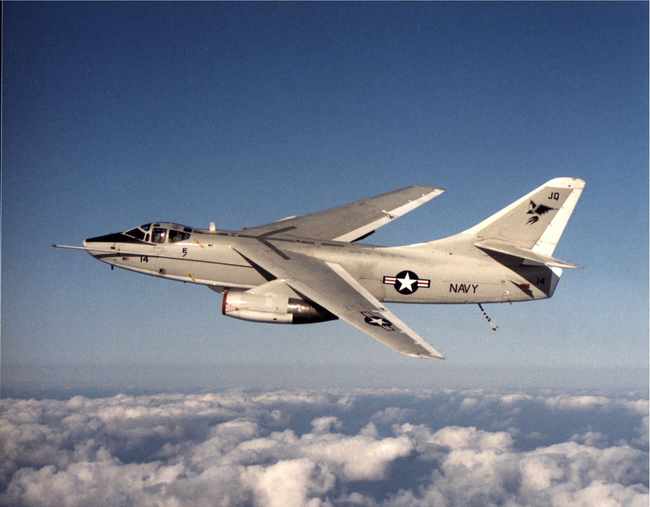 A U.S. Navy Douglas EA-3B Skywarrior of Fleet Air Reconnaissance 2 (VQ-2) "Batmen" in flight over the Gulf of Sidra. VQ-2 Det. A was assigned to Carrier Air Wing 1 (CVW-1) aboard the aircraft carrier USS America (CV-66) for a deployment to the Mediterranean Sea and the Indian Ocean from 24 April to 14 November 1984. This aircraft, "Ranger 14" (JQ-14), later made VQ-2's last catapult trap on the USS Coral Sea (CV-43) on 2 November 1987. LT Bill Steen was the pilot.